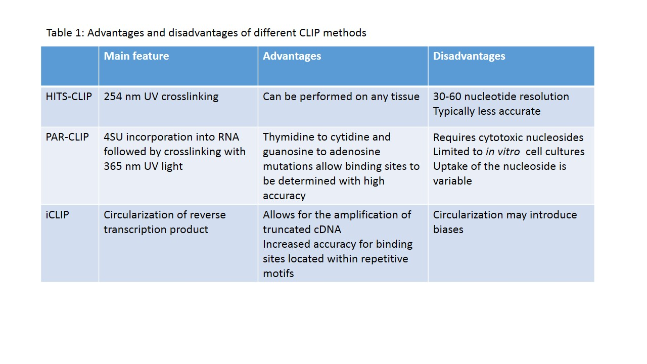 Table